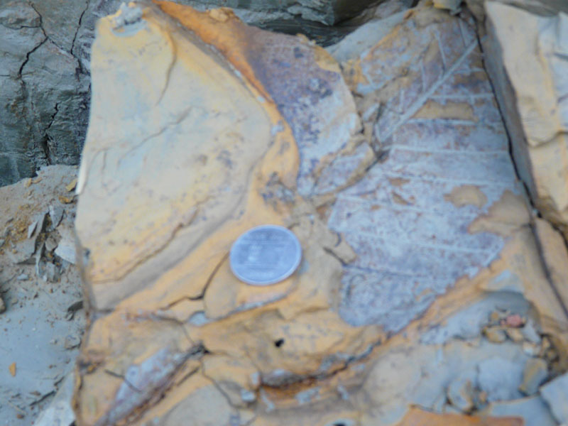 Bentonite from Kukkihalli with plant fossil ಕನ್ನಡ: ಬೆಂಟೋನೈಟು ಜೇಡಿ ಖನಿಜ, ಕುಕ್ಕೆಹಳ್ಲೀ ಗ್ರಾಮ, ಉಡುಪಿ ಜಿಲ್ಲೆ, ಕರ್ನಾಟಕ